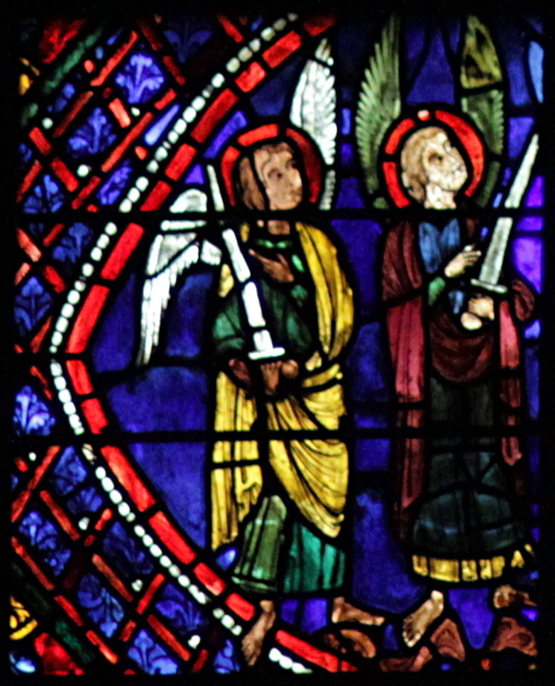 Fragment of File:Chartres 36 -Corrected.jpg - Row 09 : Panel 25 - Celestial Hierarchy IV - Powers.